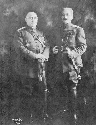 General Andranik Ozanian (right) and General Jaques Bagratuni (left)